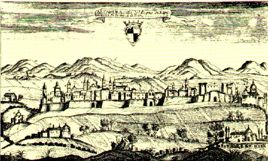 The city of Altamura in the 18th century.